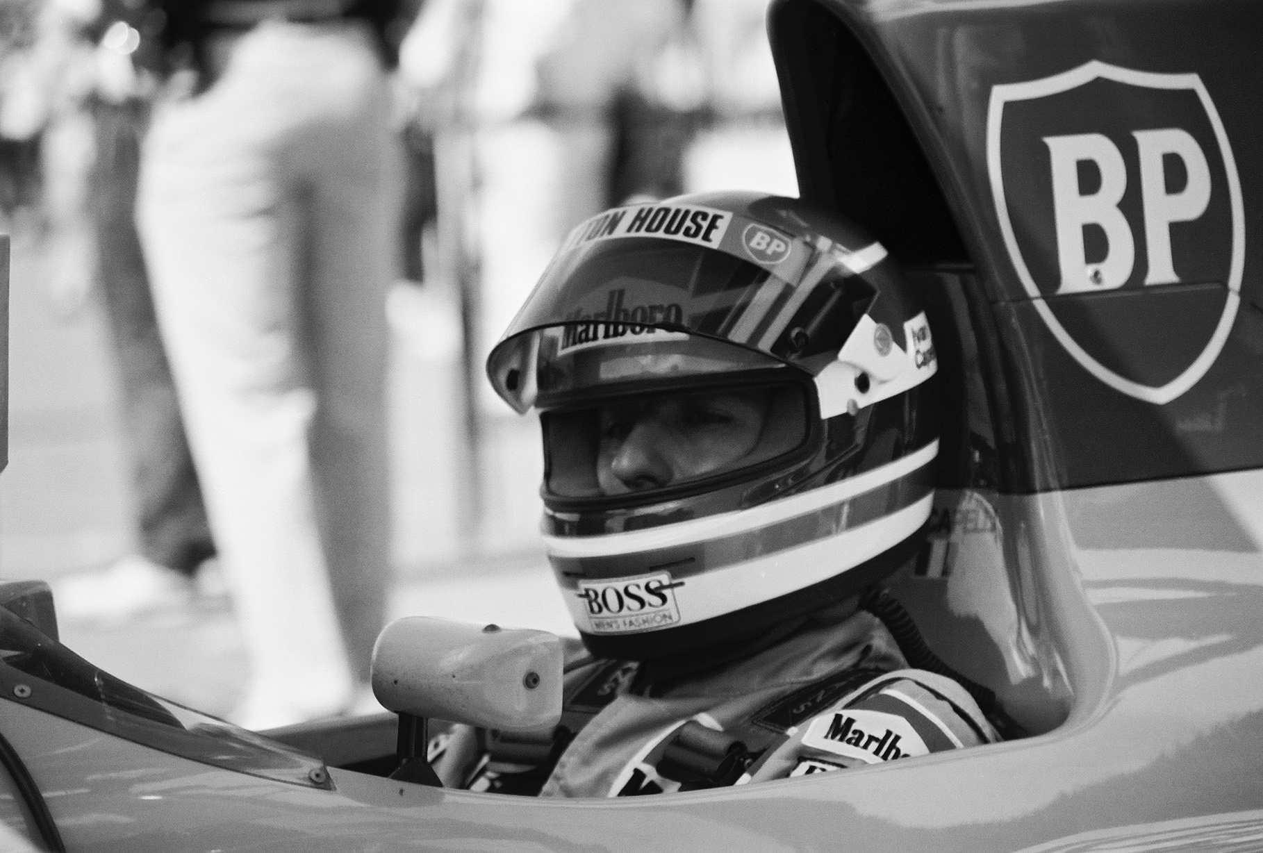 Ivan Capelli (Leyton House Racing) preparing for the 1991 United States Grand Prix